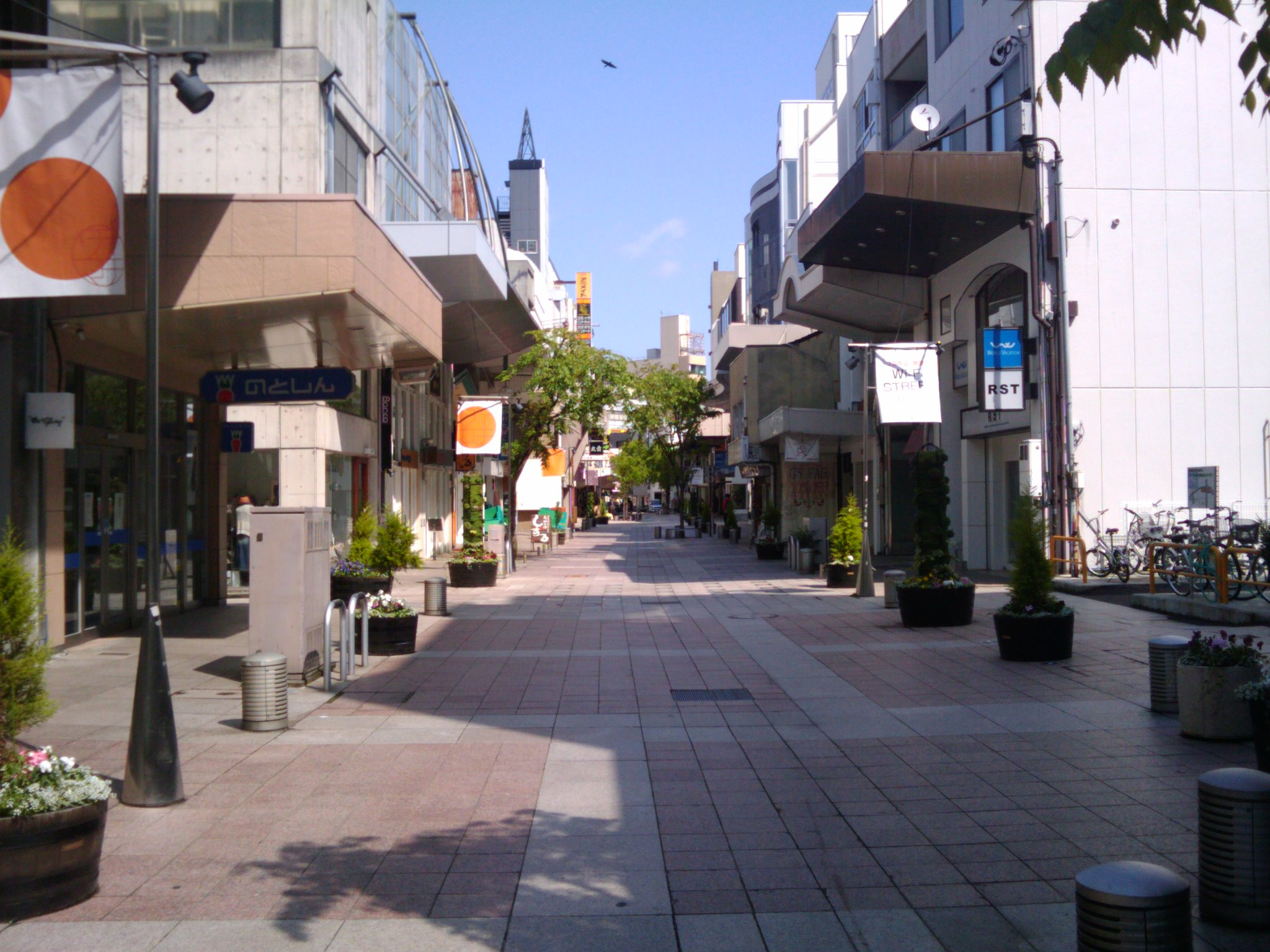 Tatemachi Street in Kanazawa, Ishikawa, Japan